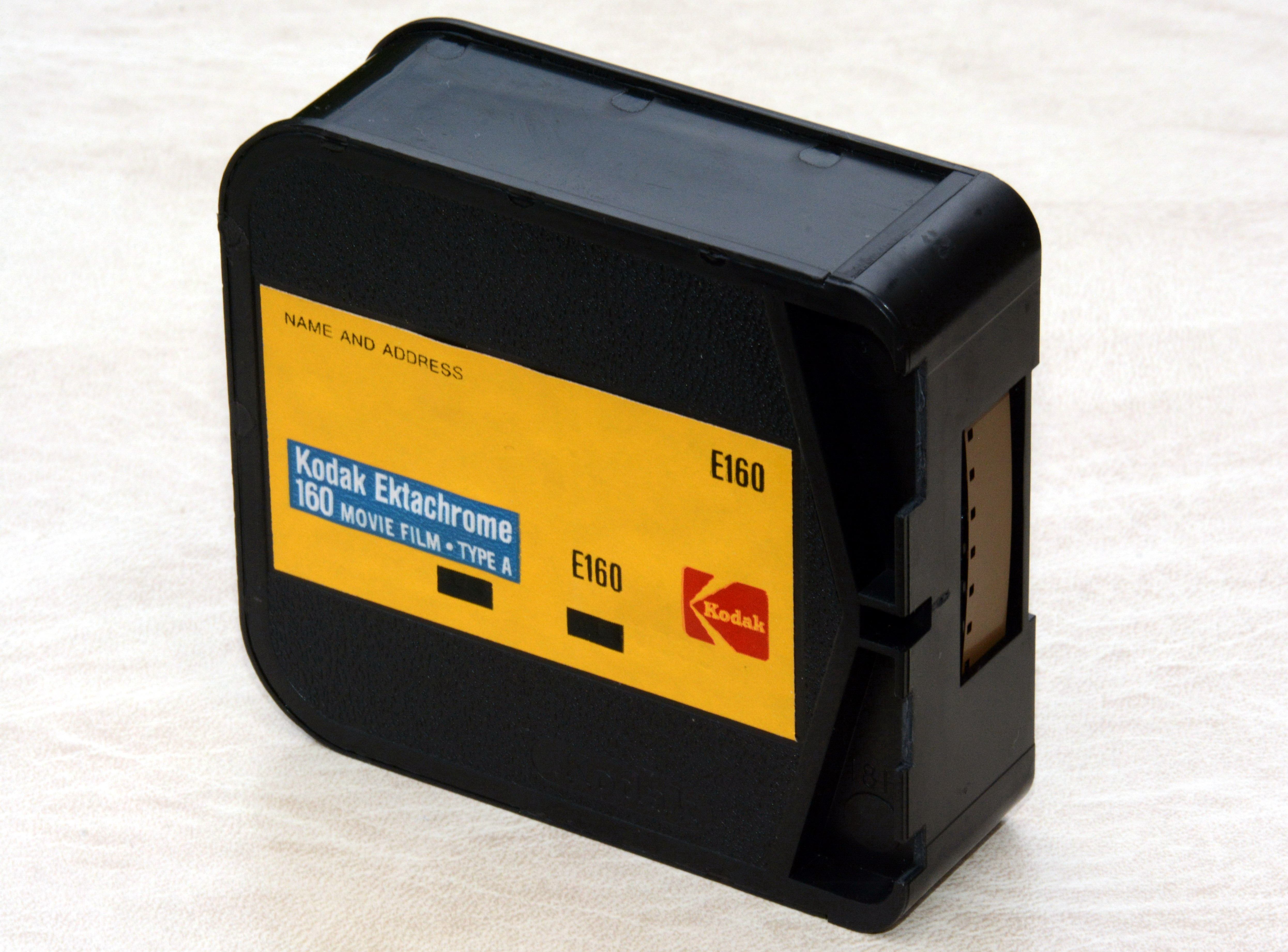 Kodak Ektachrome 160, Type A, Super 8 film cartridge